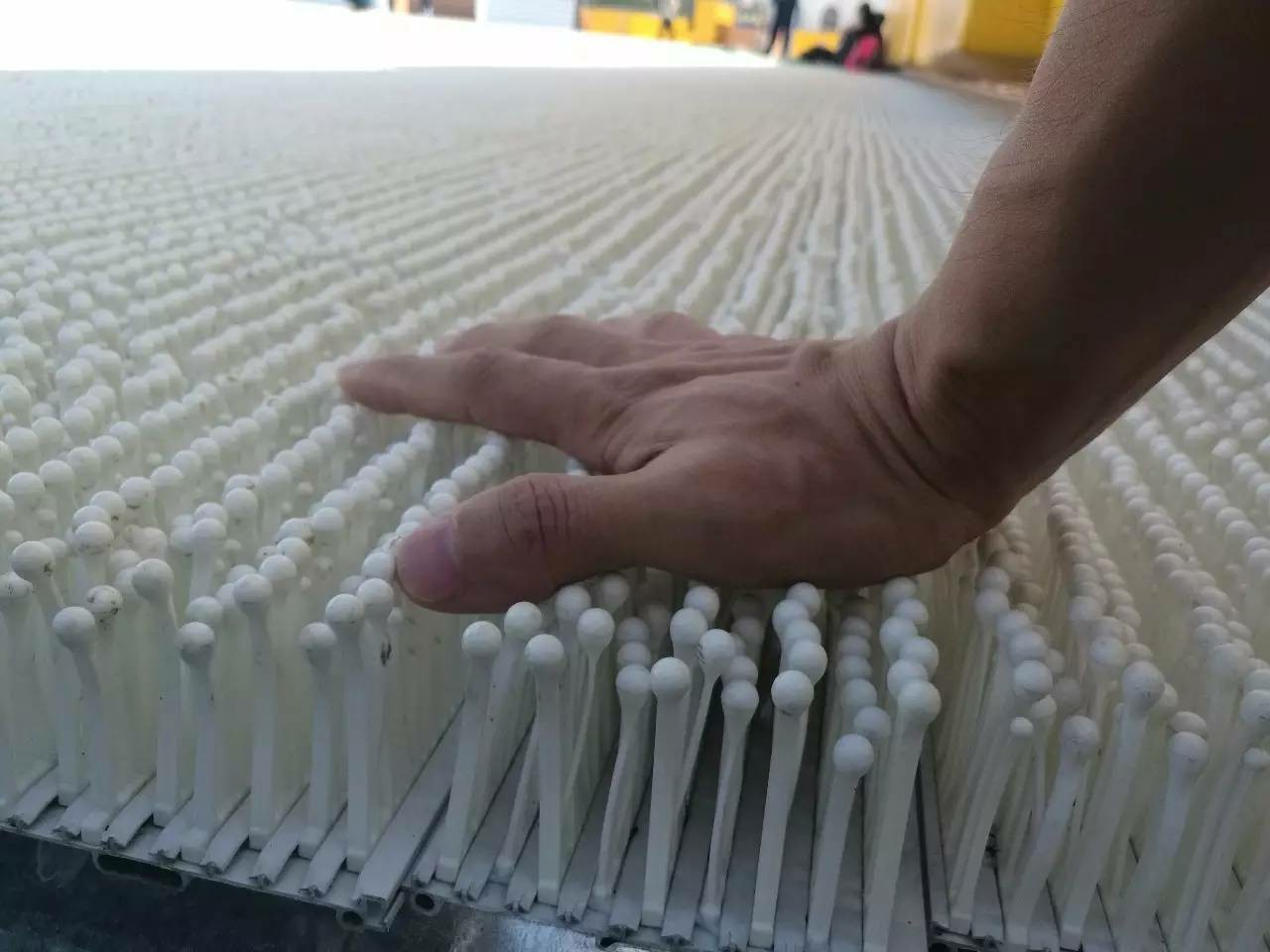 JF Dry ski's buffering and safety are especially good for beginners, and are popular with professional ski associations and Ski club as well.